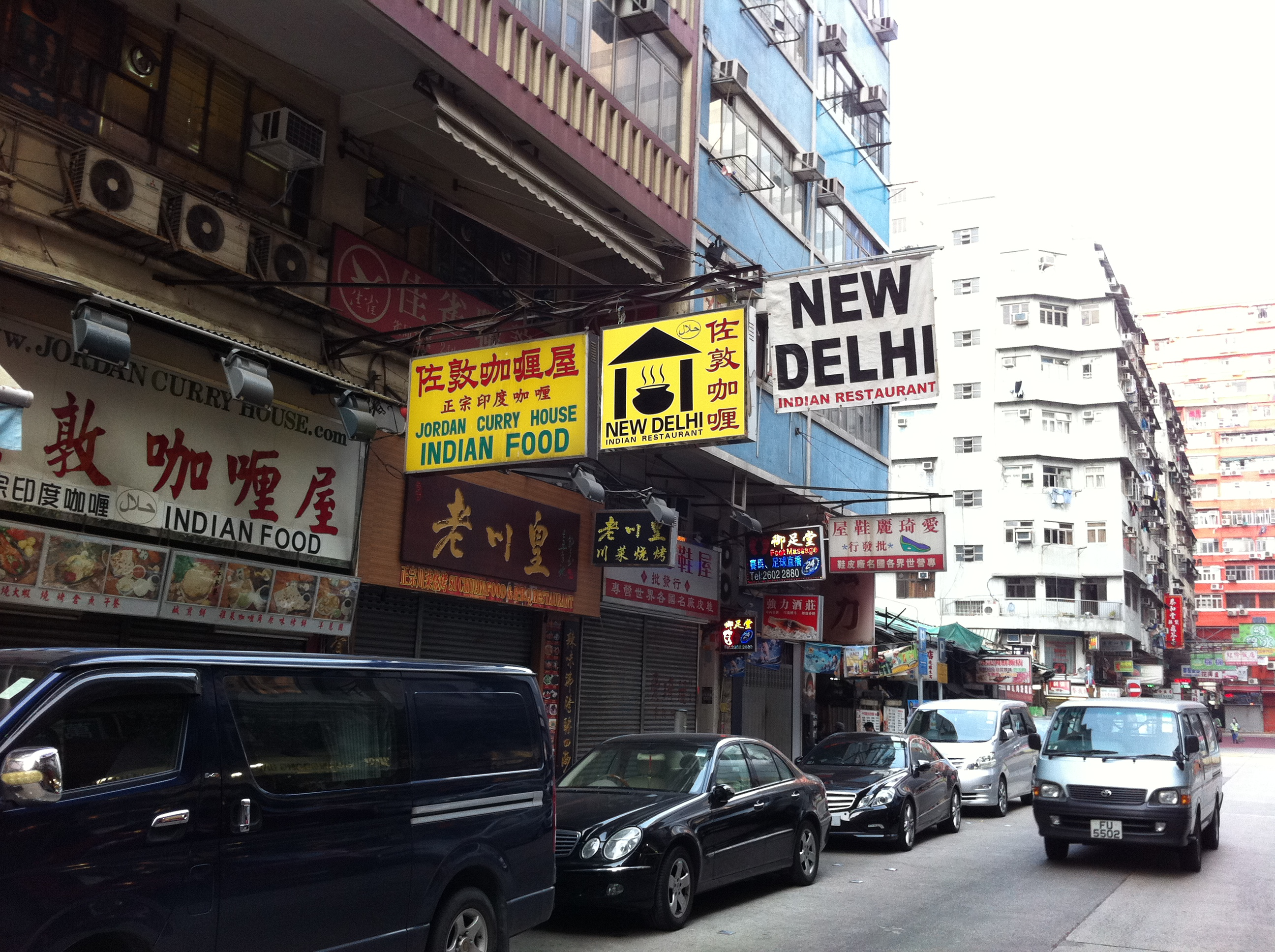 Morning in Yau Tsim Mong District, Hong Kong